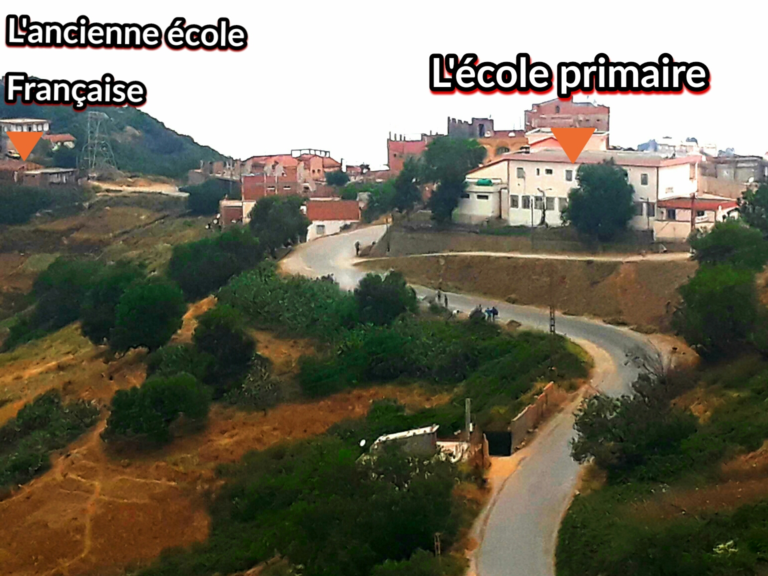 Old frensh school in mezdatta, Imezdaten